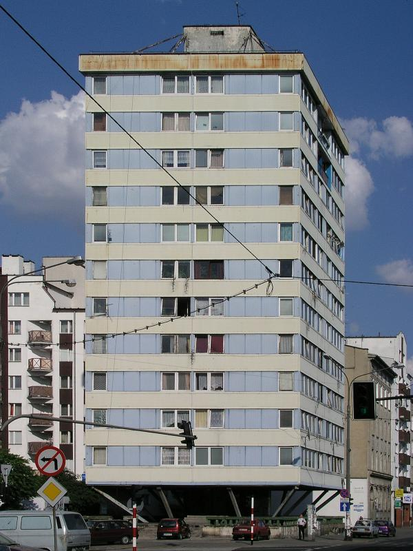 The Trzonolinowiec is a rare example of buildings that have been build from top to bottom (finished in 1967 in Wroclaw, Poland). Originally its storys have been hanging on the steel ropes, anchored only by the solid core. They have been immobilized later, as their movements were uncomfortable for the occupants.